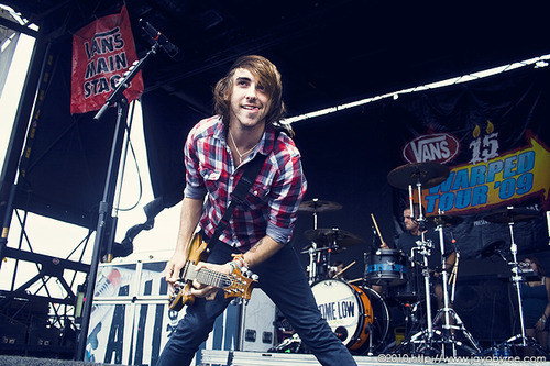 All Time Low at Warped Tour 2009